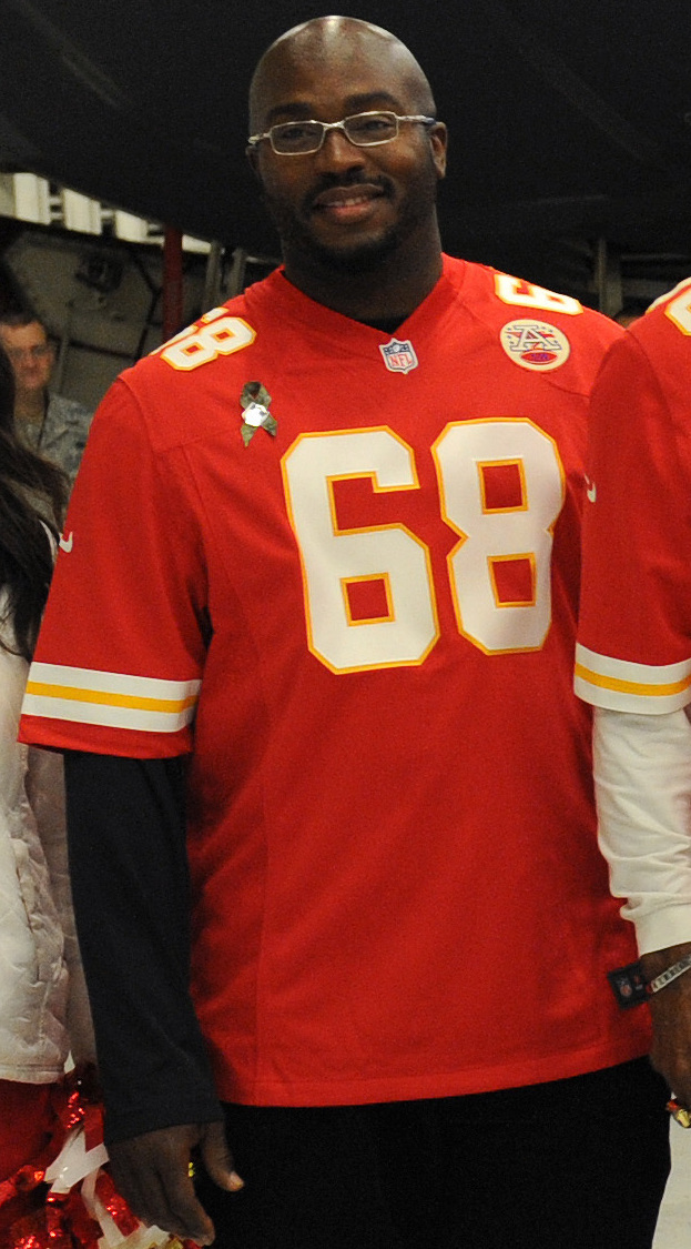 Kansas City Chiefs general manager John Dorsey presents Col. Matthew Brooks, 509th Bomb Wing vice commander, with a souvenir football at Whiteman Air Force Base, Mo., Nov. 18, 2014. The Chiefs annual visit is part of their community outreach program. (U.S. Air Force photo by Airman 1st Class Joel Pfiester/Released)